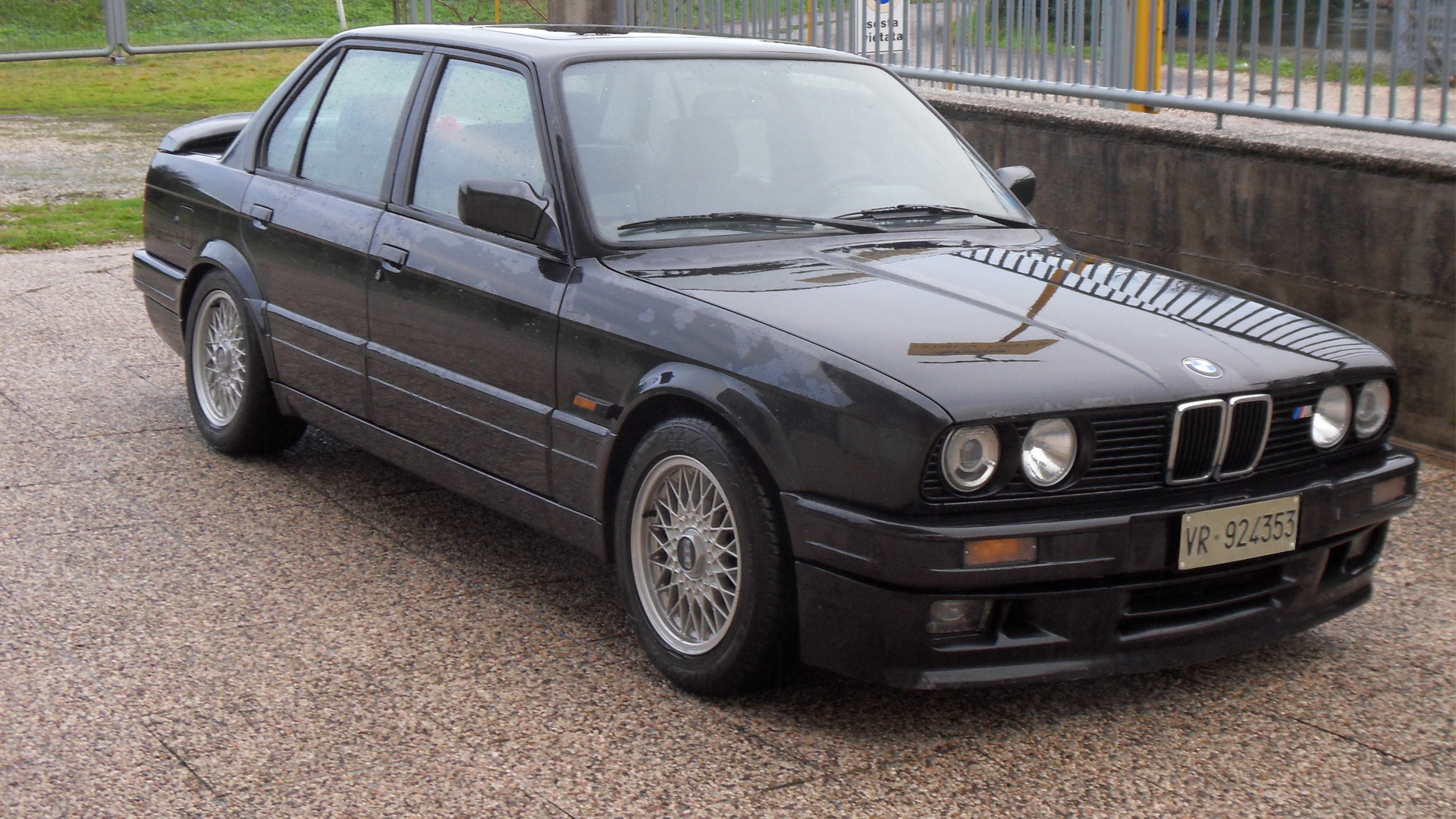 My own 1990 BMW 320is, model code E30. Colour Diamond Black metallic.